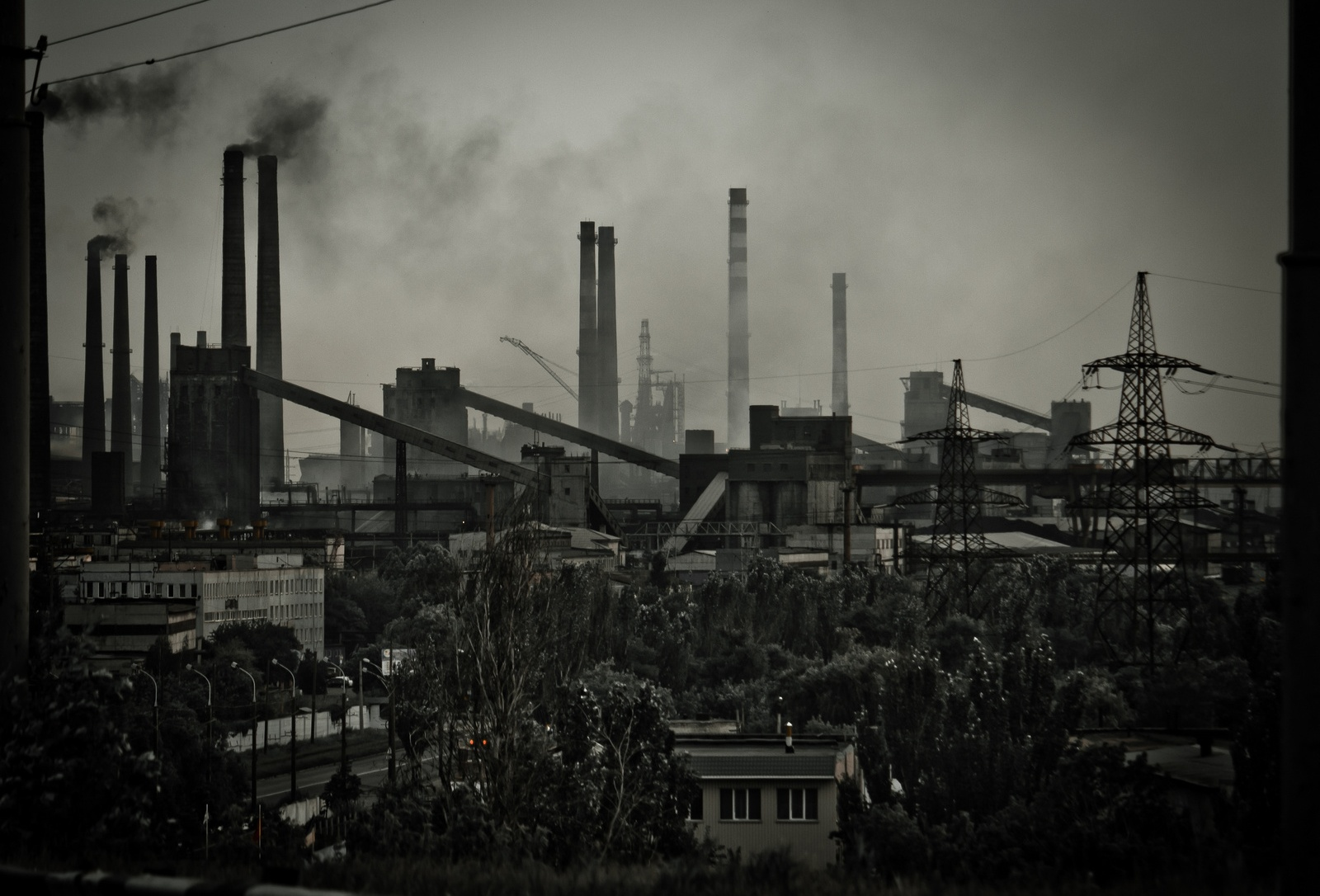 A view over Azovstal from the bridge (Naberezhnaya str.)